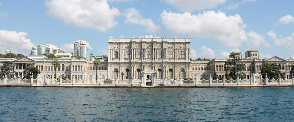 This file has been extracted from another file: Dolmabahçe Palace.JPG